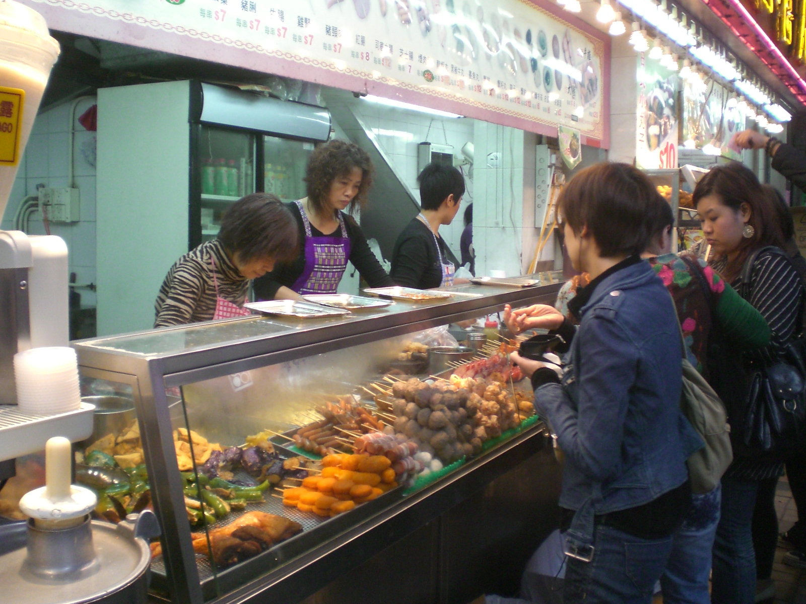 九龍尖沙咀zh:樂道小吃店